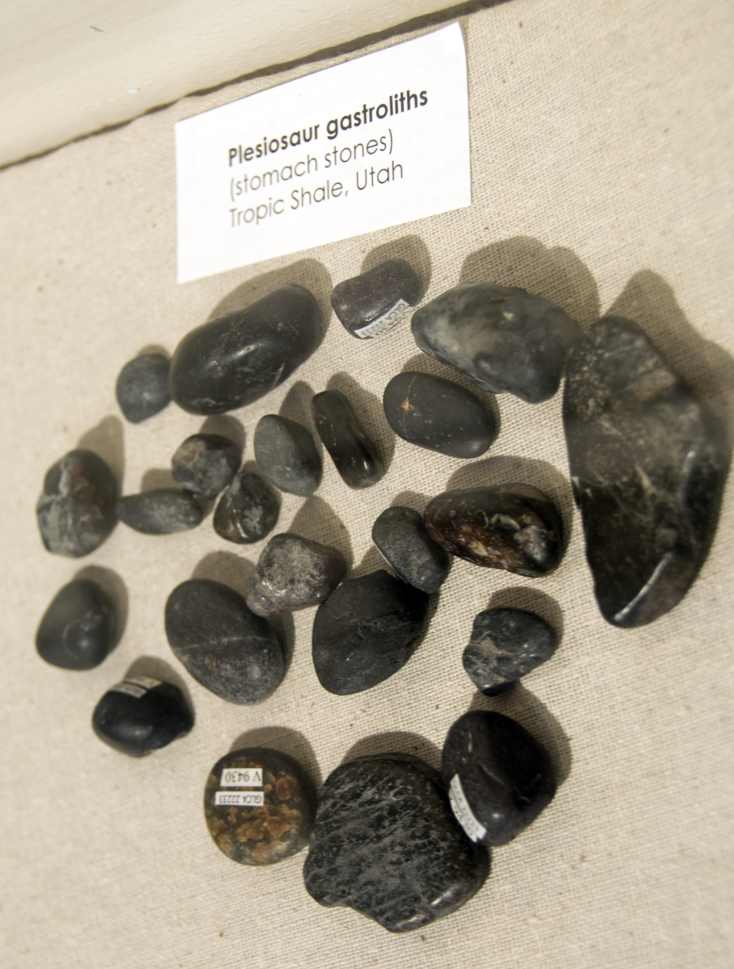 I took this image at the Museum of Northern Arizona in Flagstaff. It depicts plesiosaur gastroliths from the Tropic Shale of Utah. Photography is accepted: I was looking at a snake outside the museum with a curator and he joked that the snake was copyright, and then said that he was kidding and that photography was okay in and around the museum. I was also walking around with a huge camera in plain sight so photography must be acceptable there. The image is also available at my flickr account.